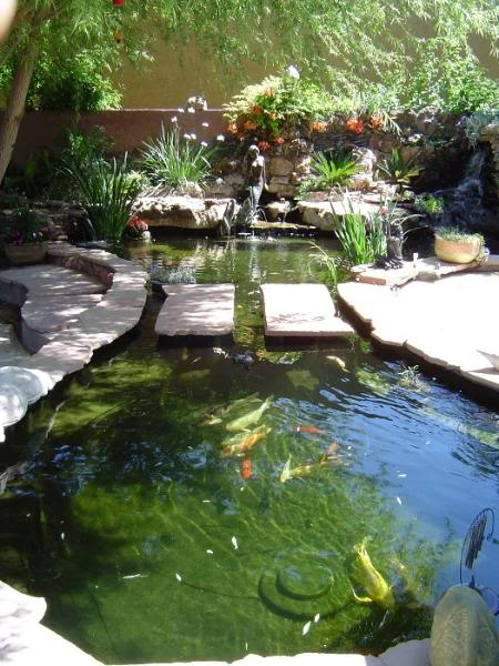 Koi pond with an extensive filtration, build by Kent Wallace